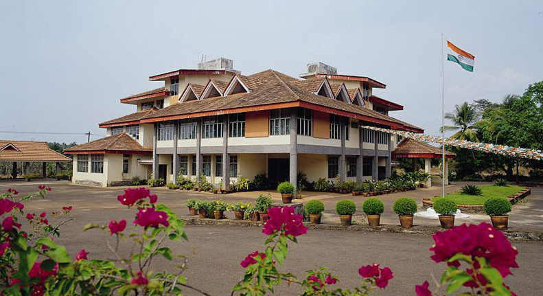 copyright holder gives permission to use